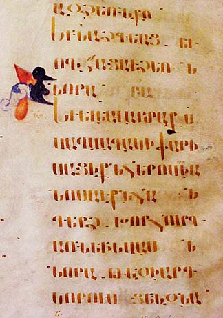 Текст на Еркатагире